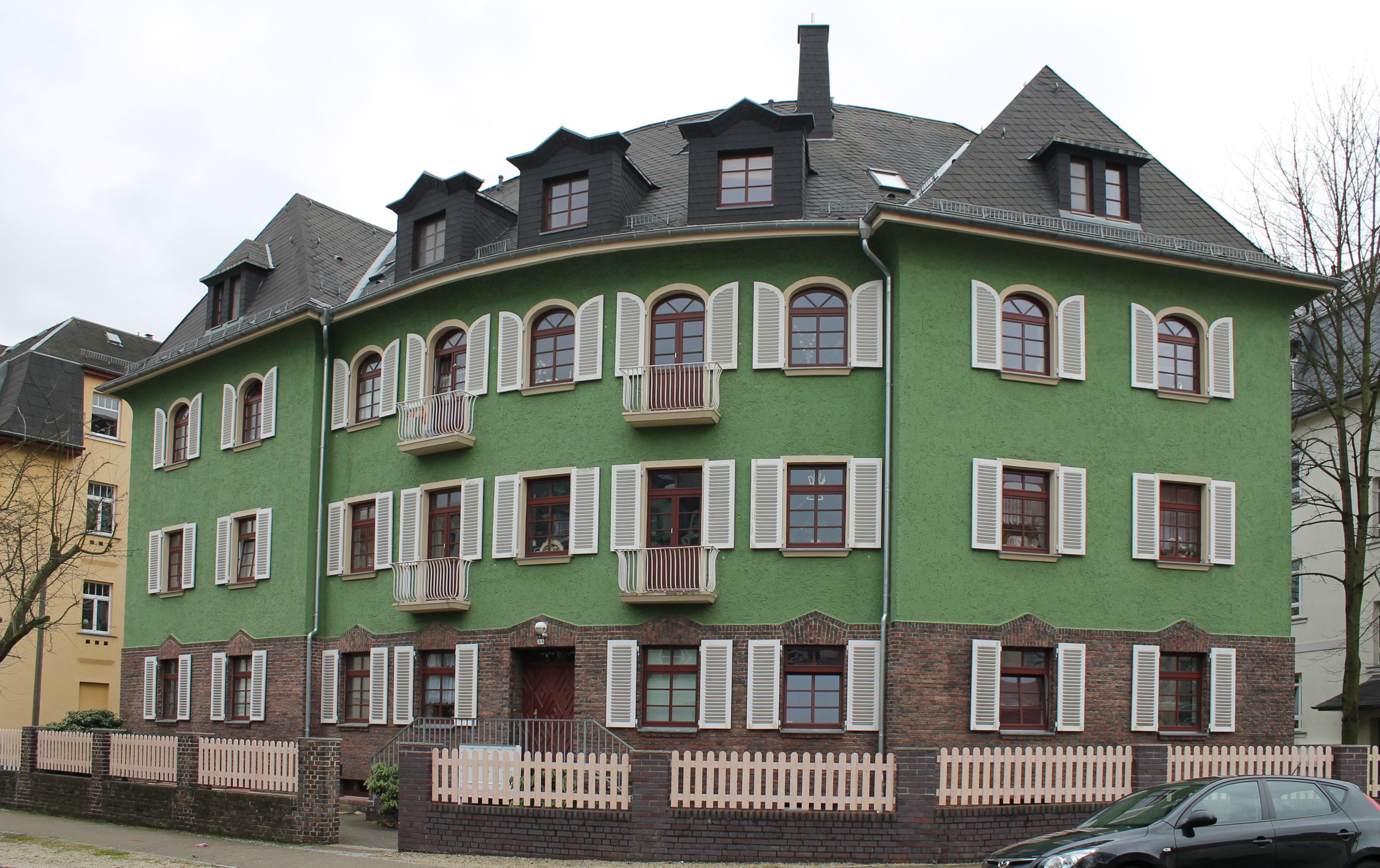 Northern suburb of Zwickau, Saxony, Germany.